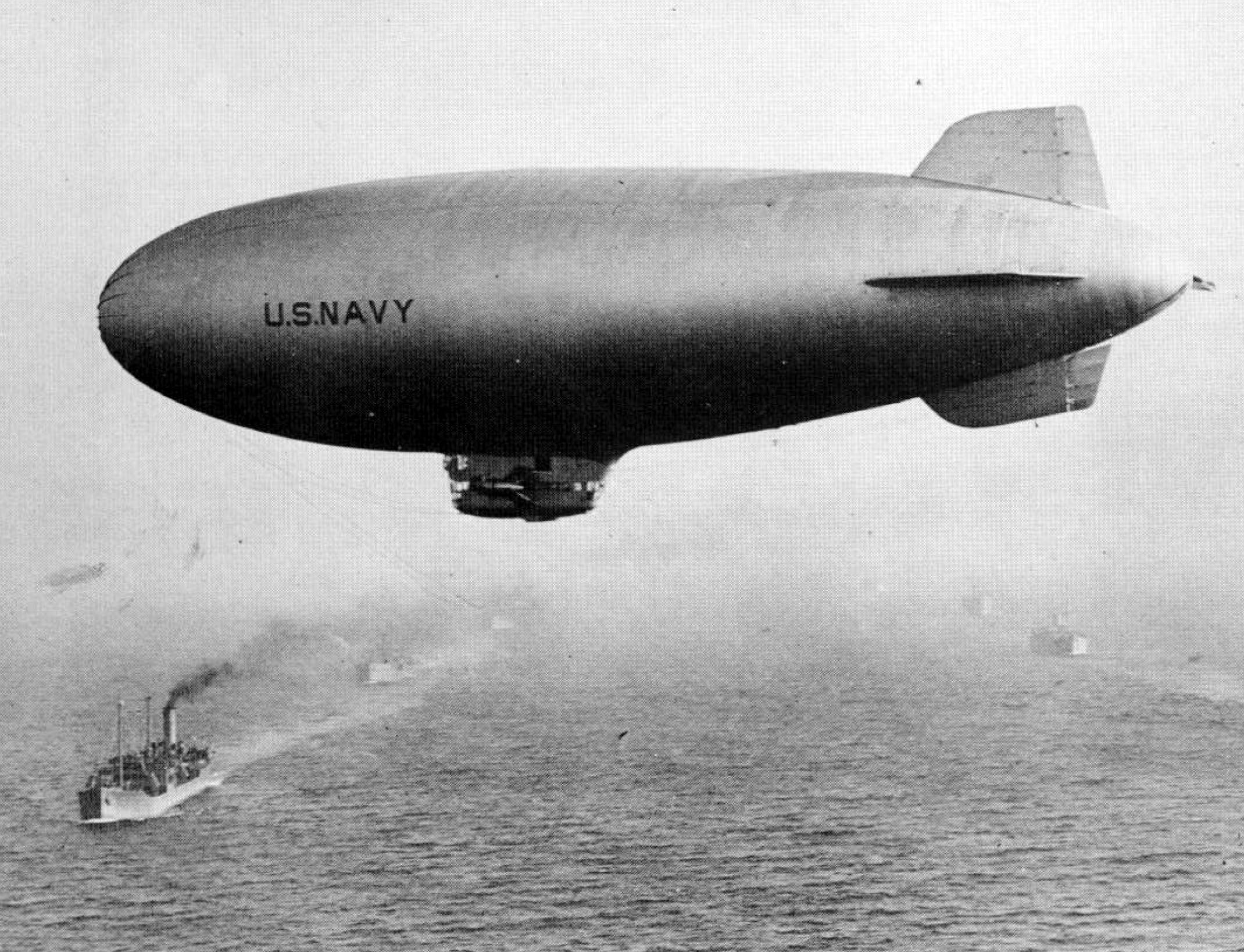 A U.S. Navy K-class blimp over a convoy during the Second World War.